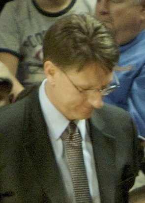 UPenn basketball head coach Glen Miller in 2009.